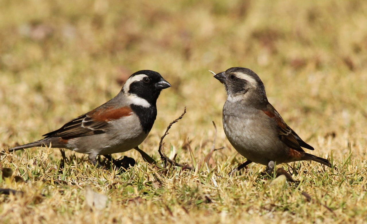 A pair of Cape Sparrows (Passer melanurus) at Walter Sisulu National Botanical Garden, Johannesburg, South Africa